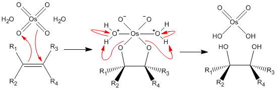 Oxidation of alkenes with Osmium(VIII)oxide.